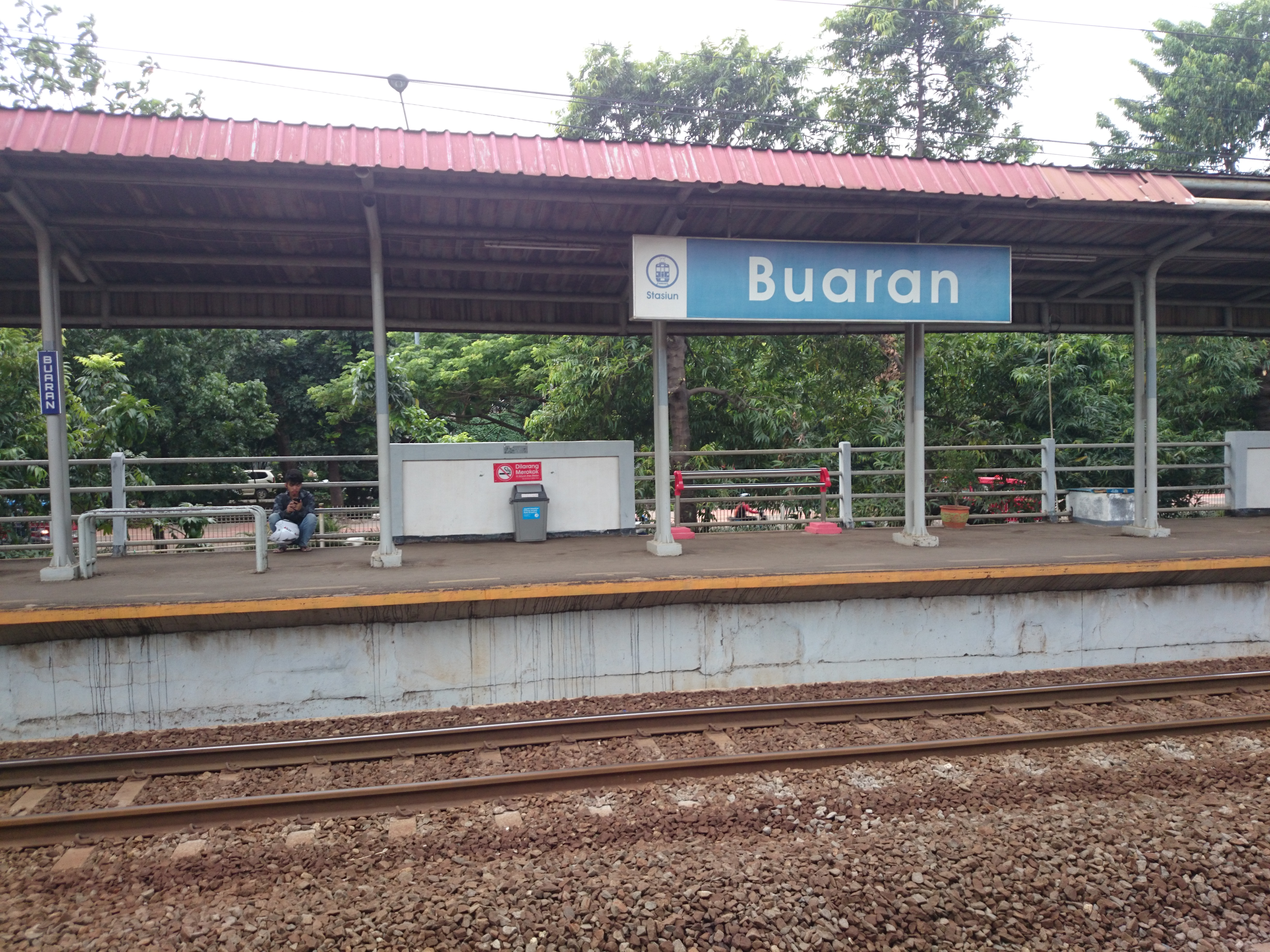 Buaran Station Image